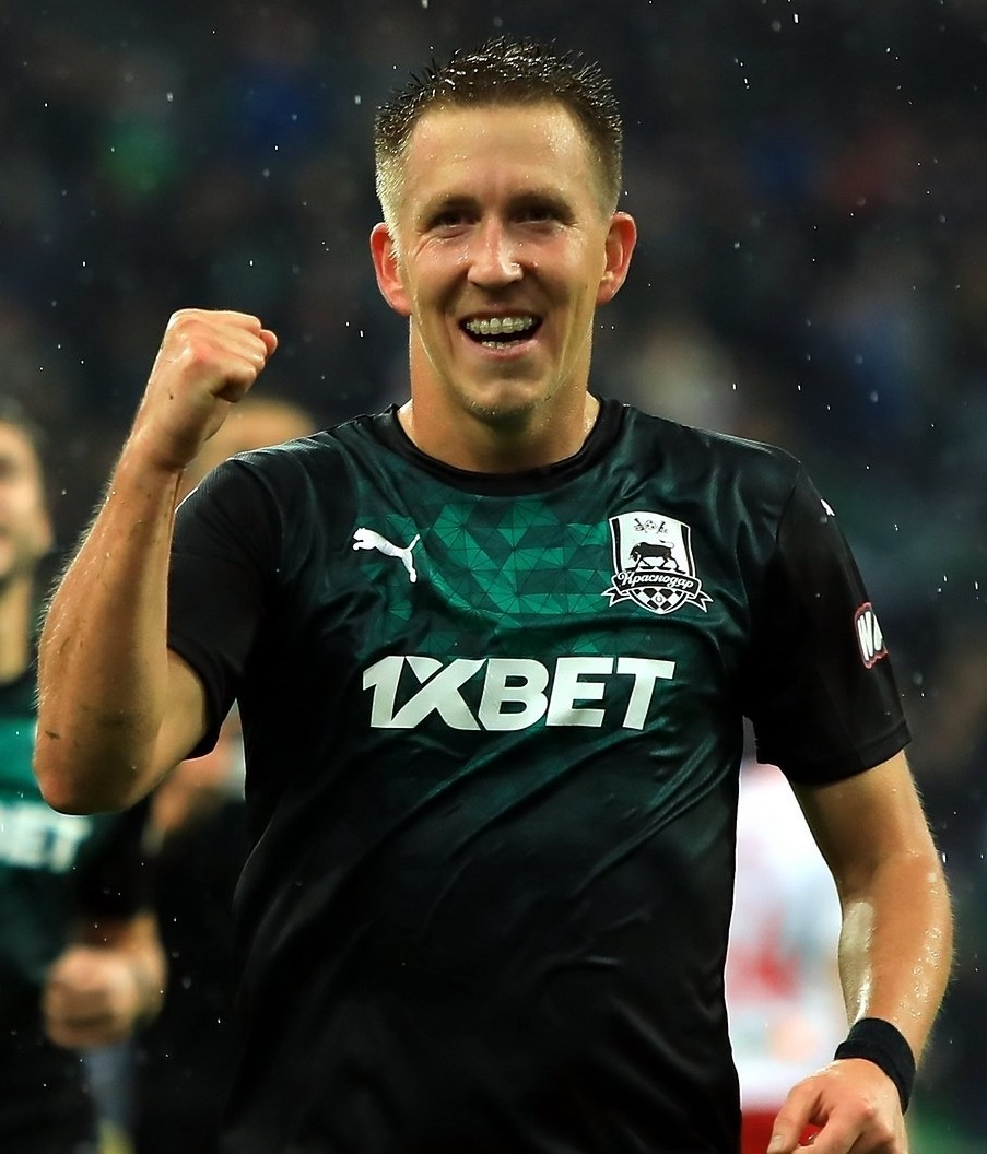 Sergei Petrov celebrates scoring a goal for FC Krasnodar in a game against FC Spartak Moscow.